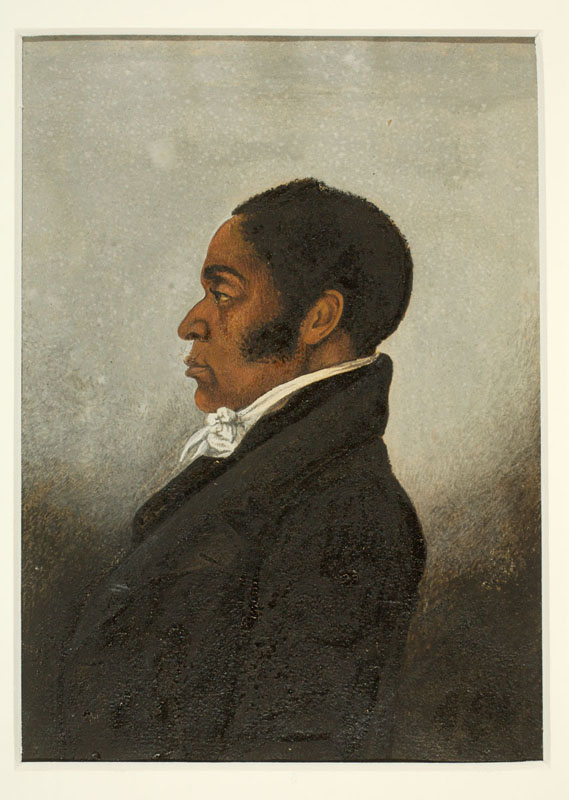 Watercolor of abolitionist James Forten (1766-1842) believed to have been painted during his lifetime. The image comes from The Historical Society of Pennsylvania